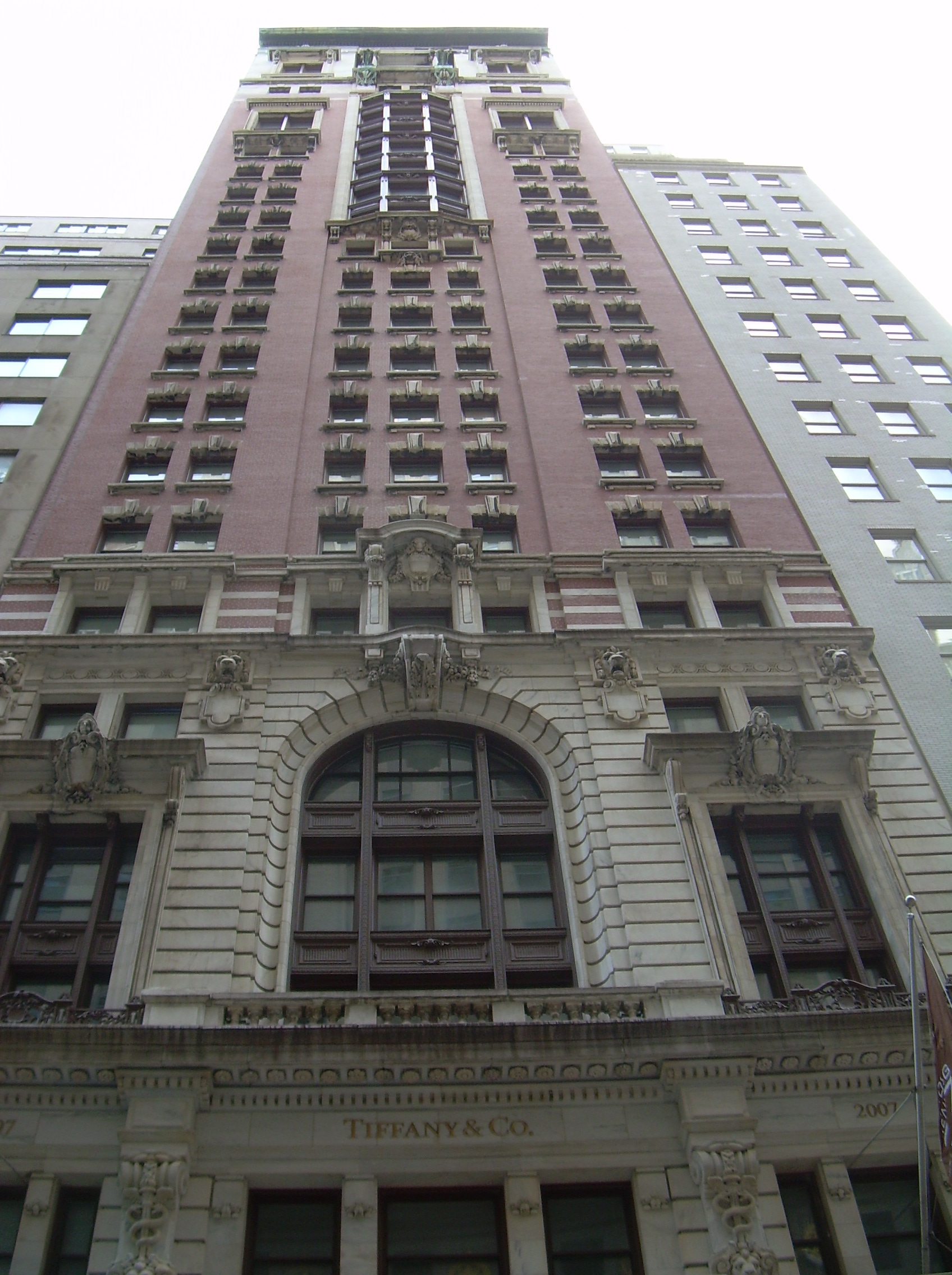 This photo is of Wikis Take Manhattan goal code H15, 37 Wall Street.